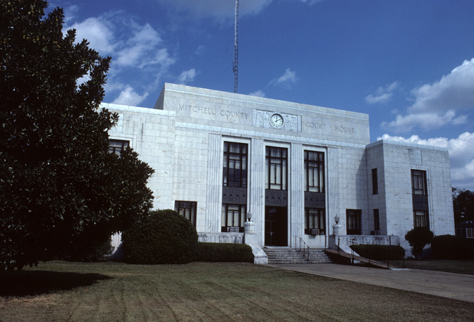 Michell County Courthouse in Camilla, Georgia, United States